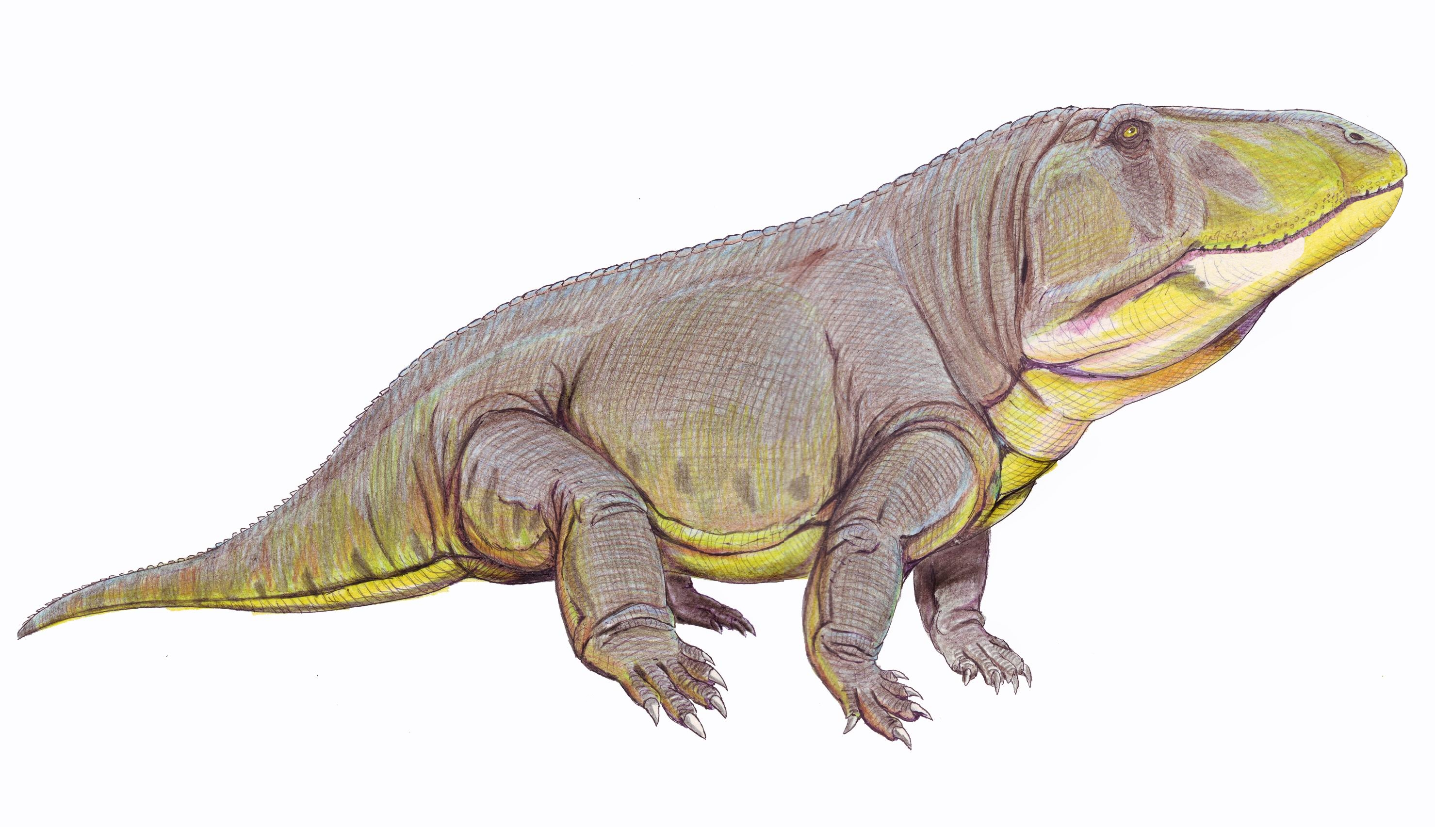 Erythrosuchus africanus from Middle Triassic of South Africa